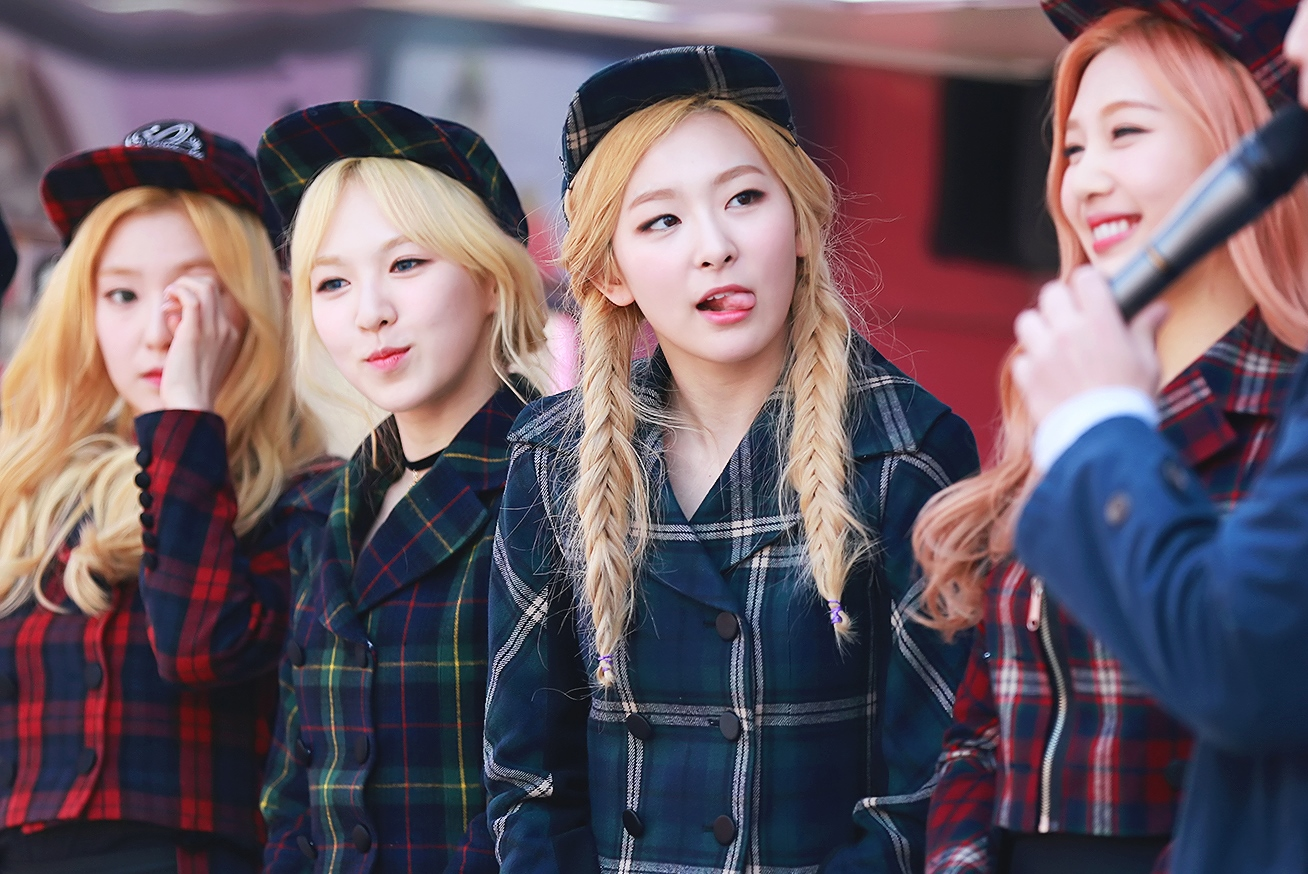 Red Velvet at fansing Ice Cream Dating in Sinchon on March 29, 2015.